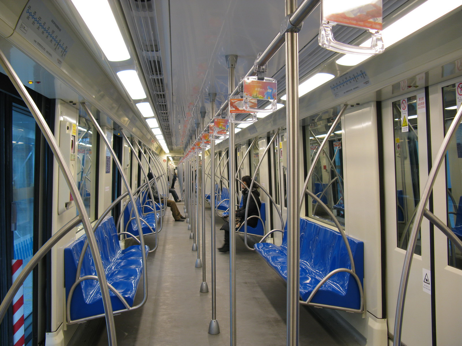 上海軌道交通8號線列車車廂 Interior of Shmetro Line 8 Train